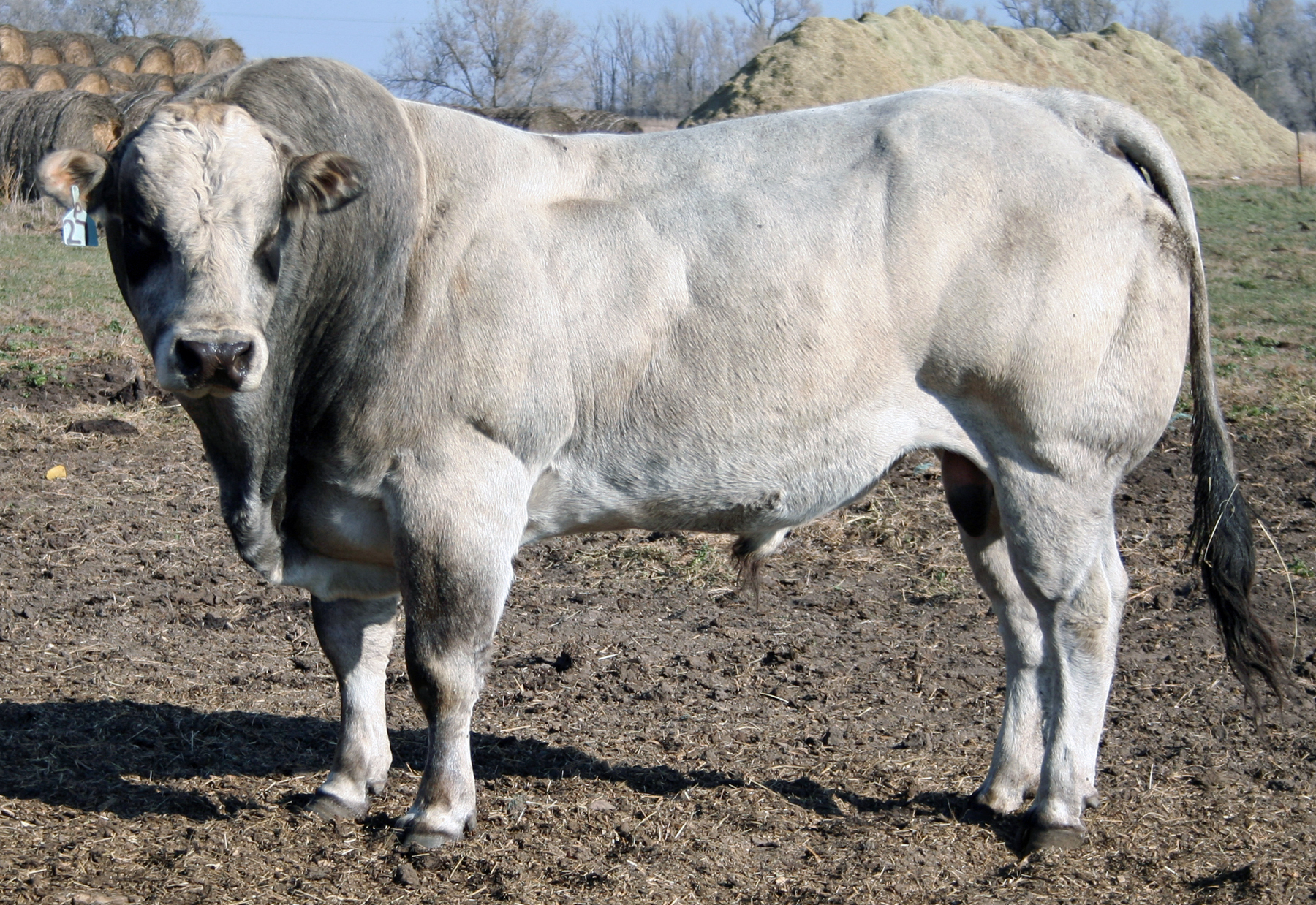 Dakota 27P, Fullblood North American Piedmontese bull